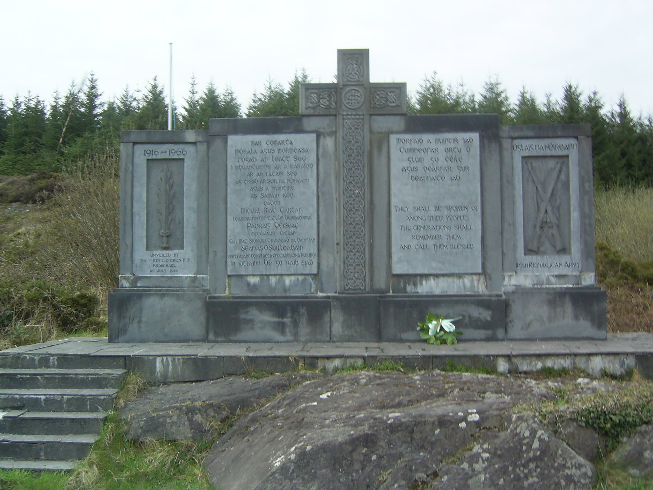 Kilmichael memorial. My own photo.